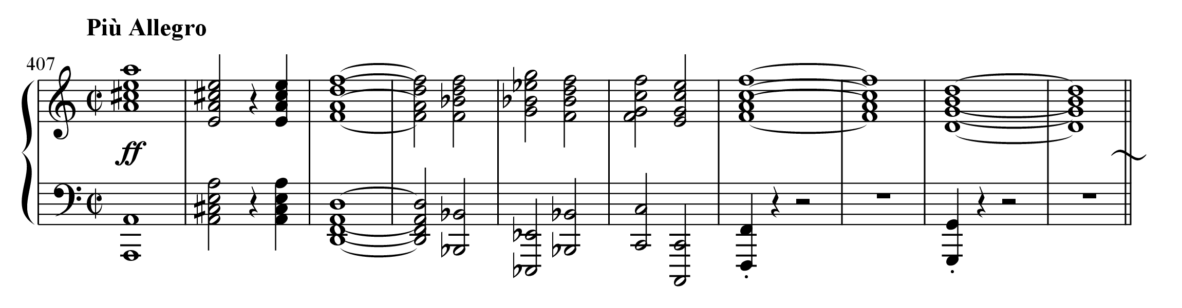 Brahms - Symphony No.1 in C minor, Op.68 - Mov.4